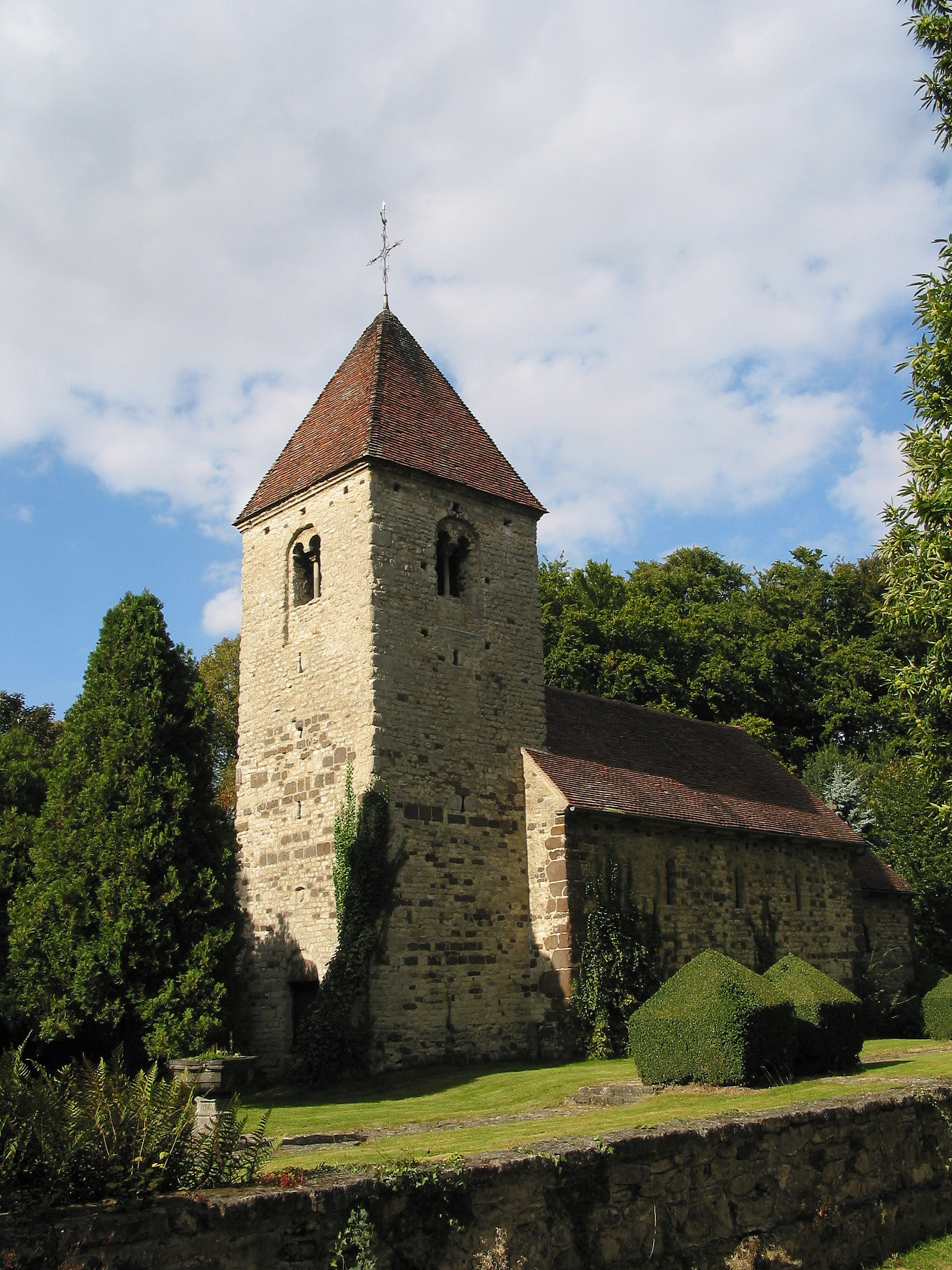 Auderghem (Belgium), the St. Anne chapel (XIIth century).